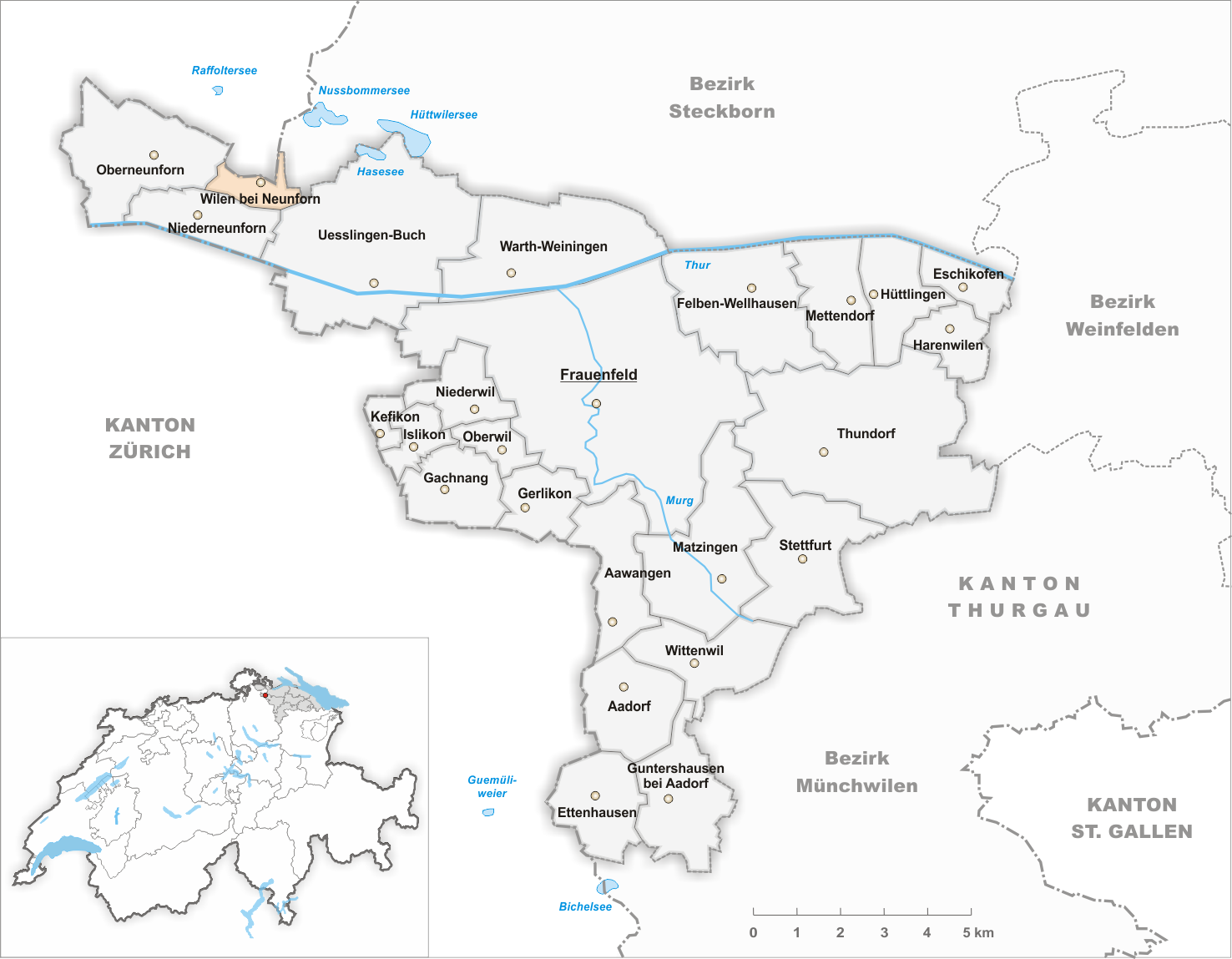 Municipality Wilen